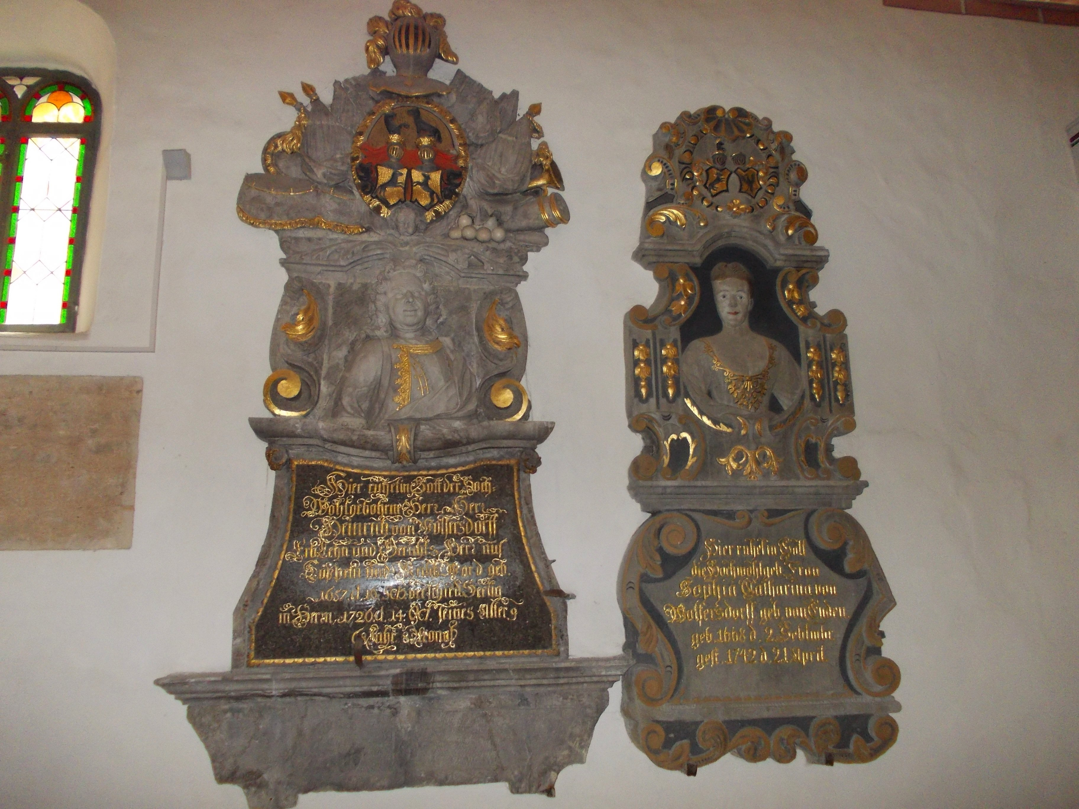 Epitaphs in St. Vitus Church in Veitsberg (Wünschendorf/Elster, Greiz district, Thuringia)